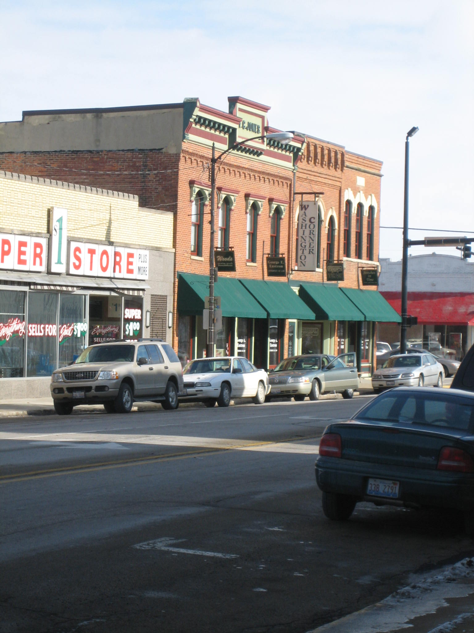 F.G. Jones Block, Washington Center and 300 Washington , c. 1868, 1868 and 1870, Oregon, Illinois. National Register of Historic Places as part of the Oregon Commercial Historic District.